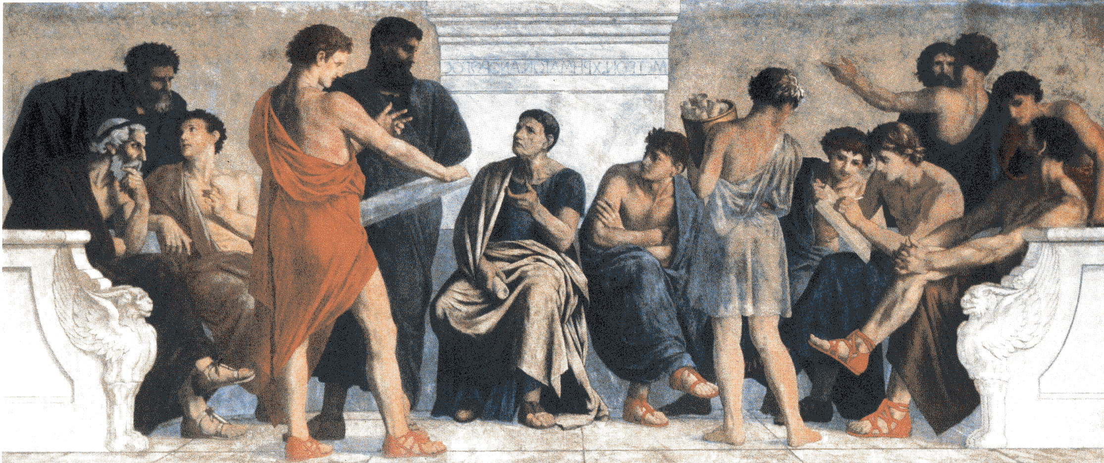 fresco depicting the School of Aristotle by Gustav Adolph Spangenberg, ca 1883-1888